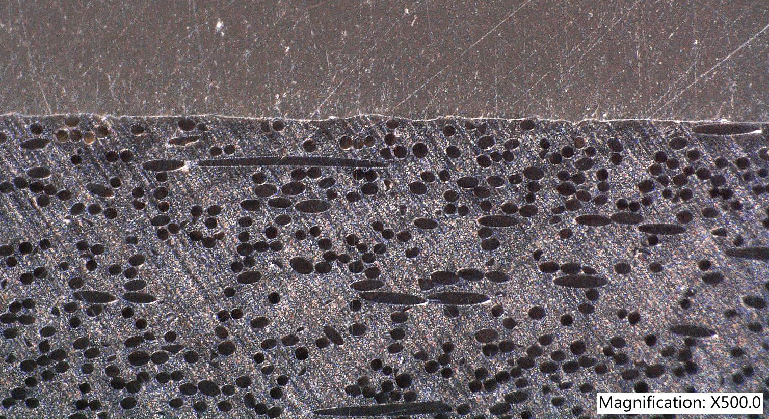 Cross-section of fiberglass reinforced PA6, magnification x500, Material Laboratory